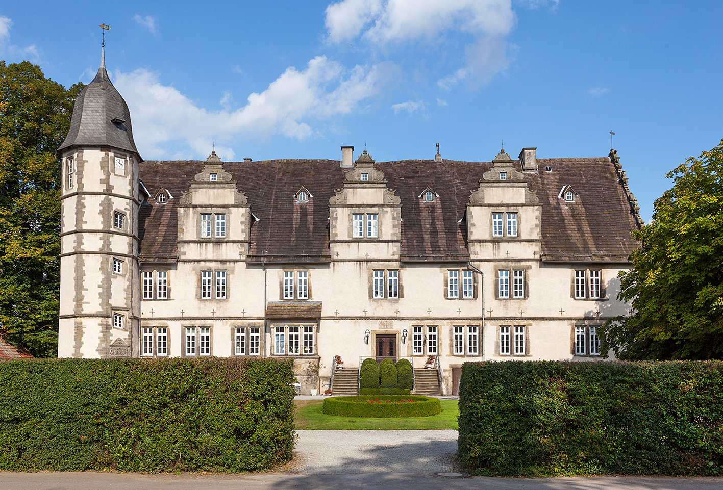 Water Castle Wendlinghausen in Lippe near Lemgo, Germany from 1613